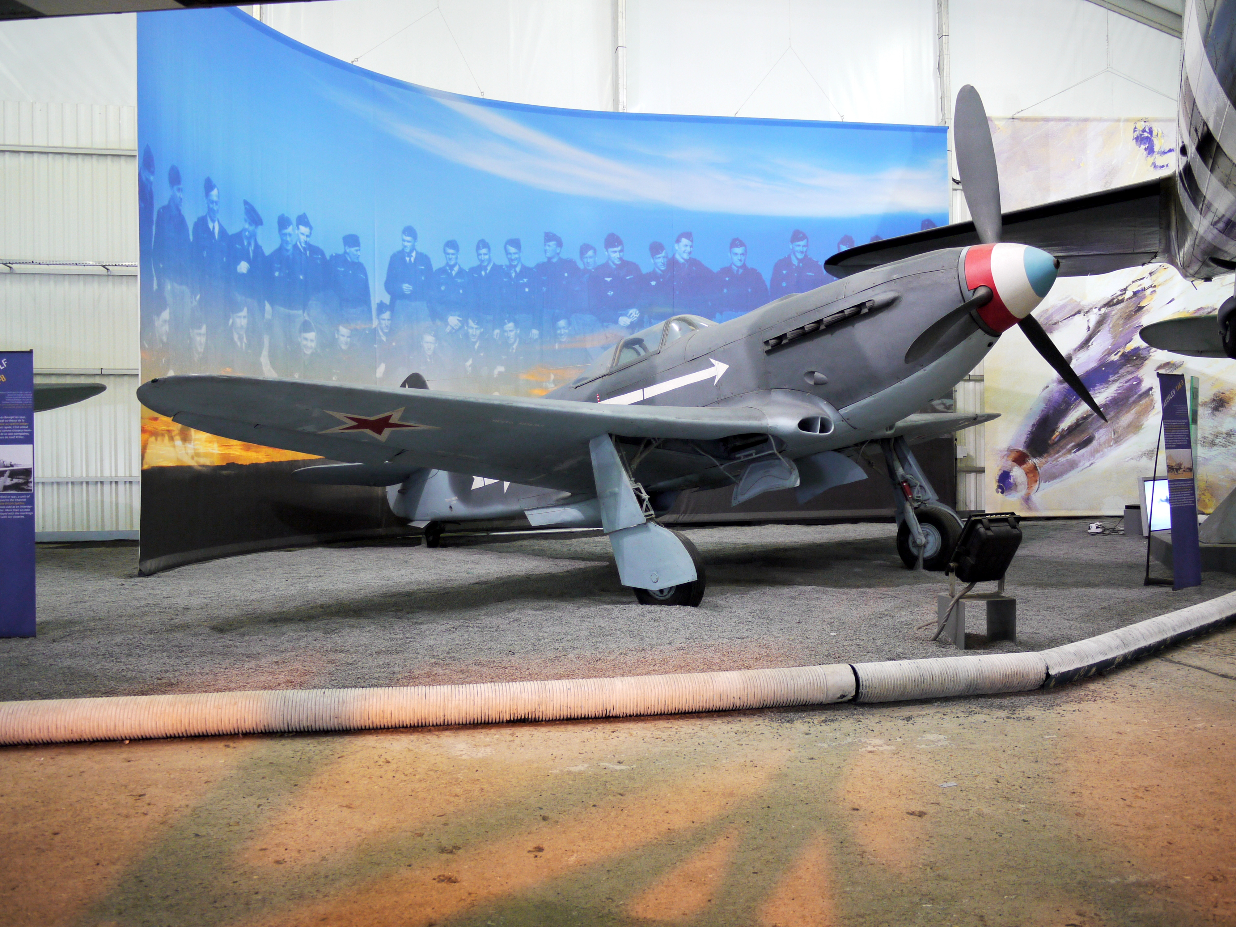 Russian Yak-3 fighter from the Normandie-Niemen fighter squadron (1943), Museum of Air and Space, Le Bourget, Paris (France)